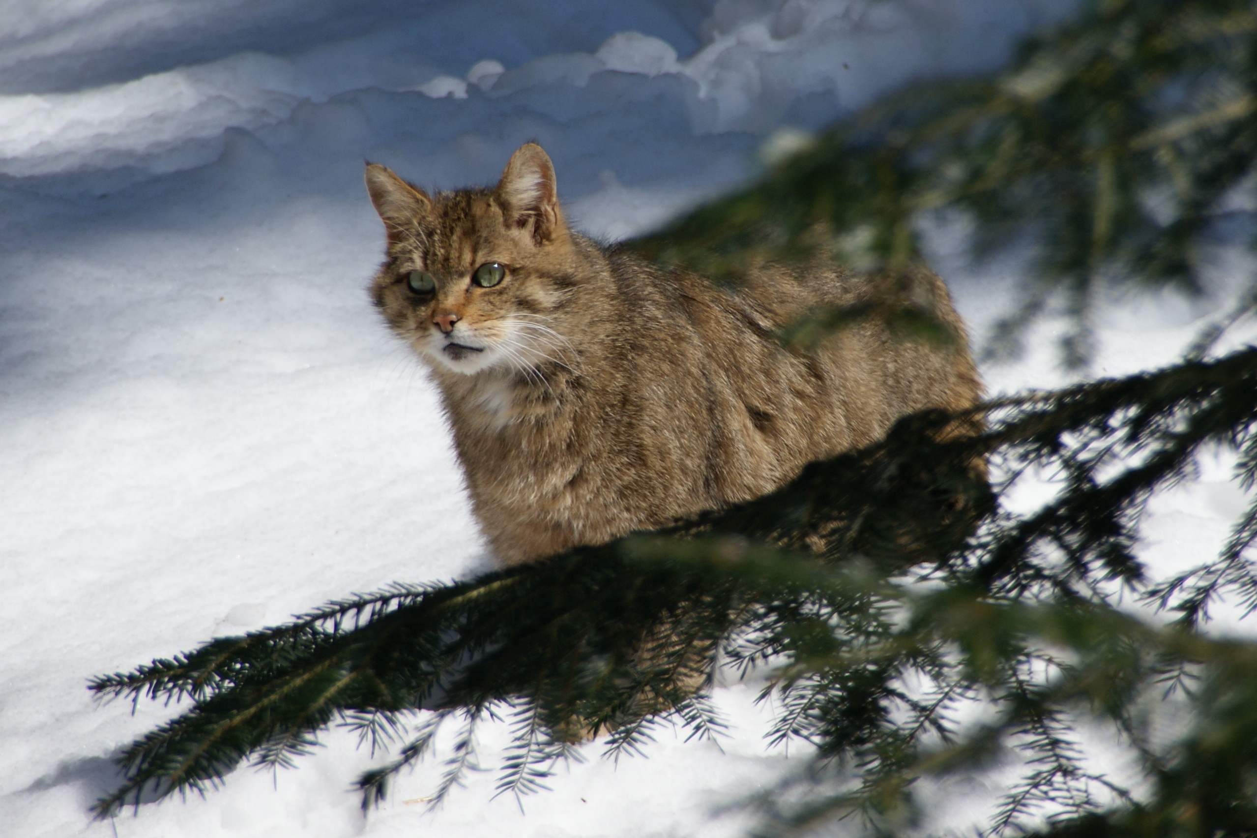 European Wildcat in an open-air enclosure at the Bavarian Forest National Park